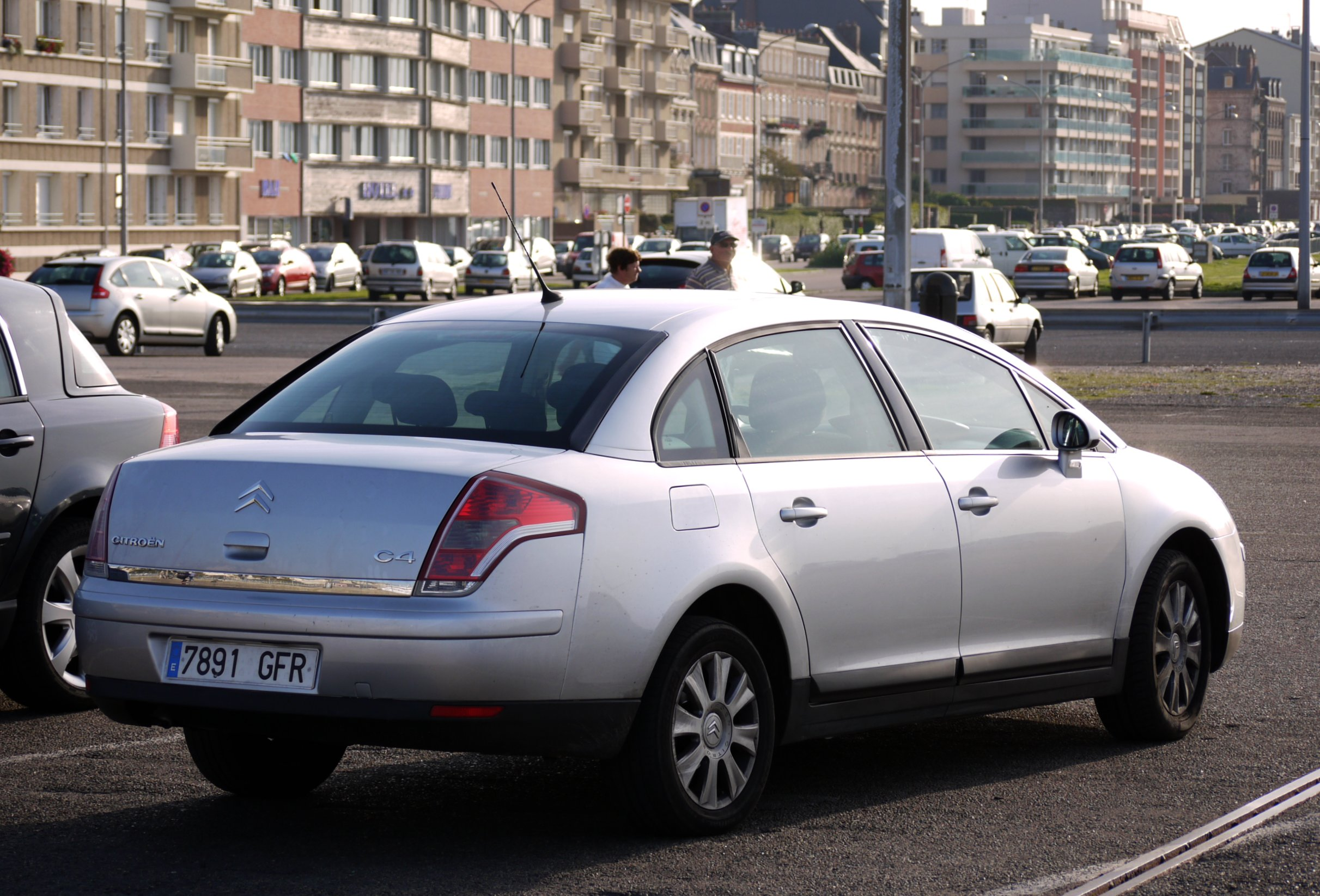 2008 Citroën C4 saloon - only the second one I have ever seen and also registered in Spain.